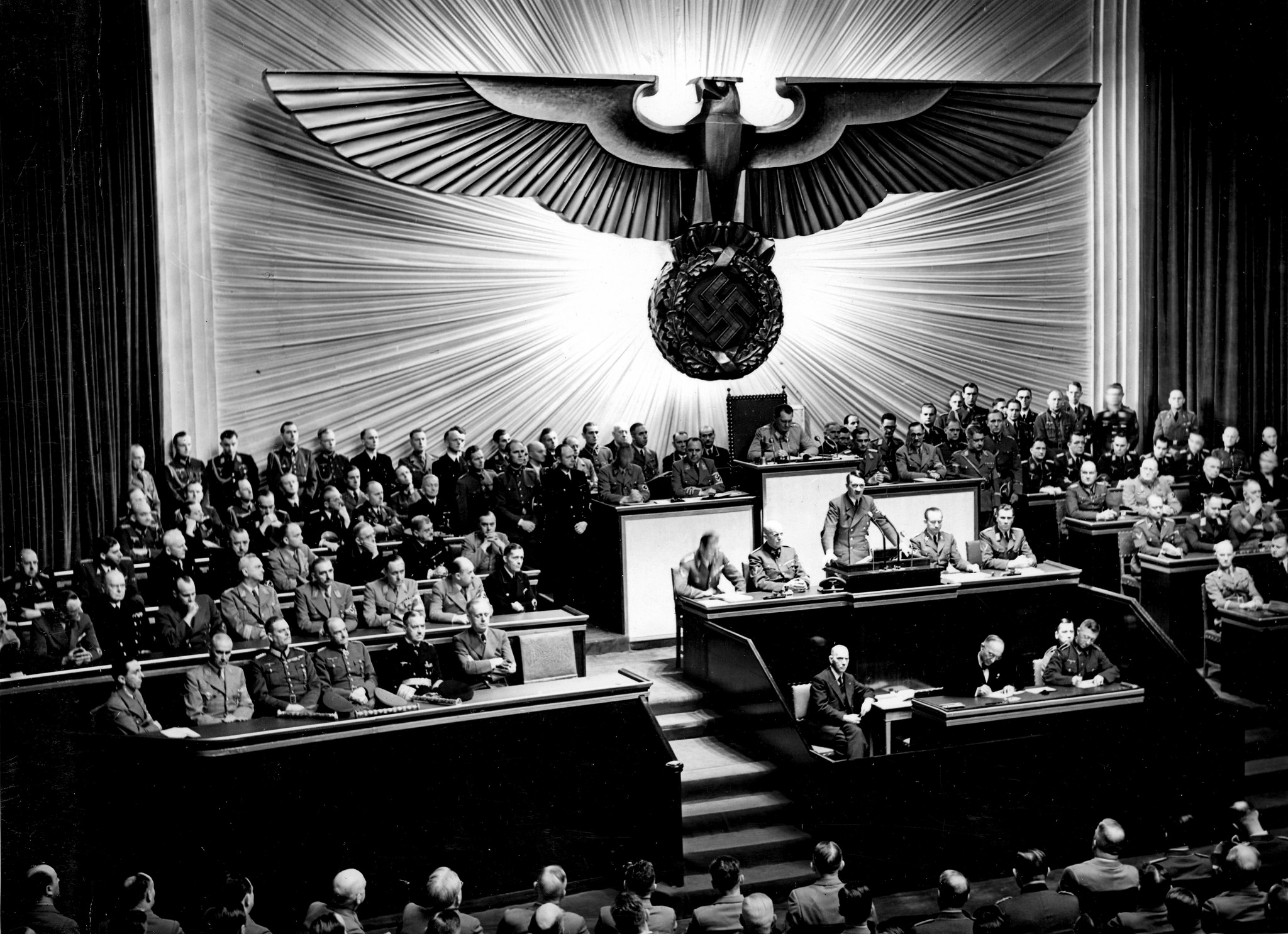 Adolf Hitler delivers a speech at the Kroll Opera House to the men of the Reichstag on the subject of Roosevelt and the war in the Pacific, declaring war on the United States. Next to Hitler in the government benches (from right to left) are Joachim von Ribbentrop, Erich Raeder, Walther von Brauchitsch, Wilhelm Keitel, Wilhelm Frick and Joseph Goebbels. In the second row (from right to left) are Lutz Graf Schwerin von Krosigk, Walther Funk, Richard Walther Darré, Bernhard Rust, Hanns Kerrl, Hans Frank, Julius Dorpmüller, Arthur Seyss-Inquart and Fritz Todt. In the third row (from right to left) are Alfred Rosenberg, Otto Meißner and Johannes Popitz.